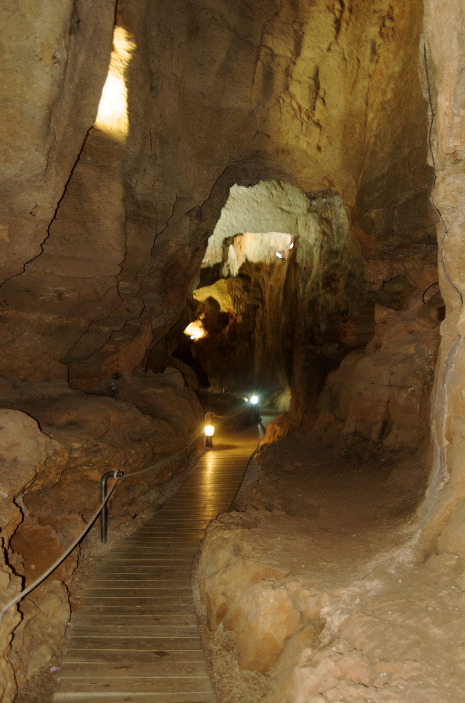 Cova de les Calaveres or Cueva de las Calaveras, in Bordeleig, Alicante, Spain.